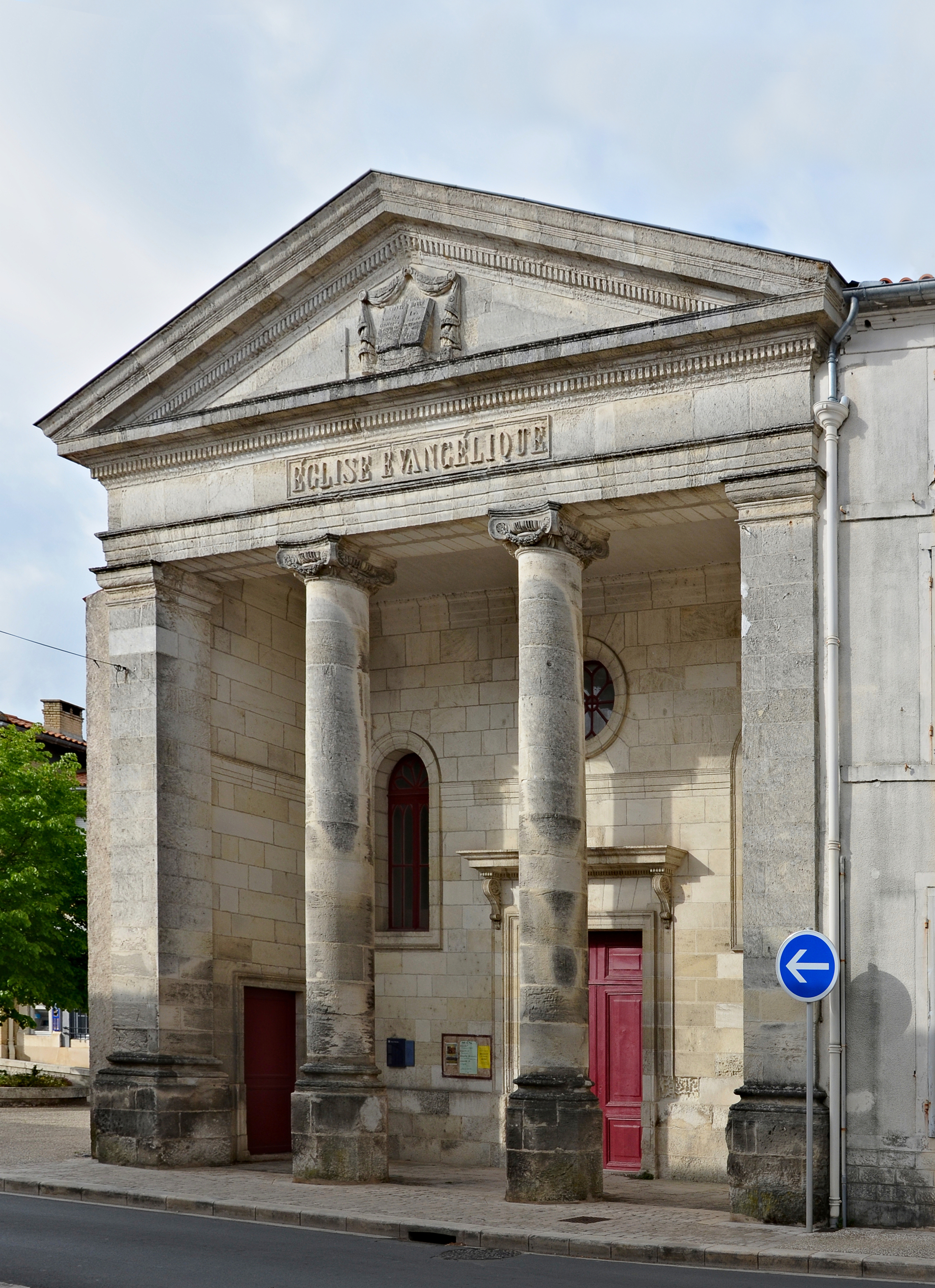 Neo-classical facade (renewed in 1861) of the protestant church. Marennes, Charente-Maritime, France.